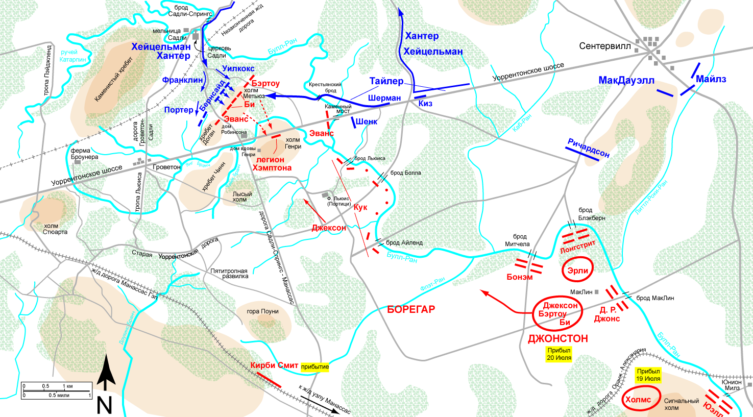 Partial map of the First Bull Run Campaign of the American Civil War, situation on the morning of July 21, 1861. Drawn by Hal Jespersen in Adobe Illustrator.